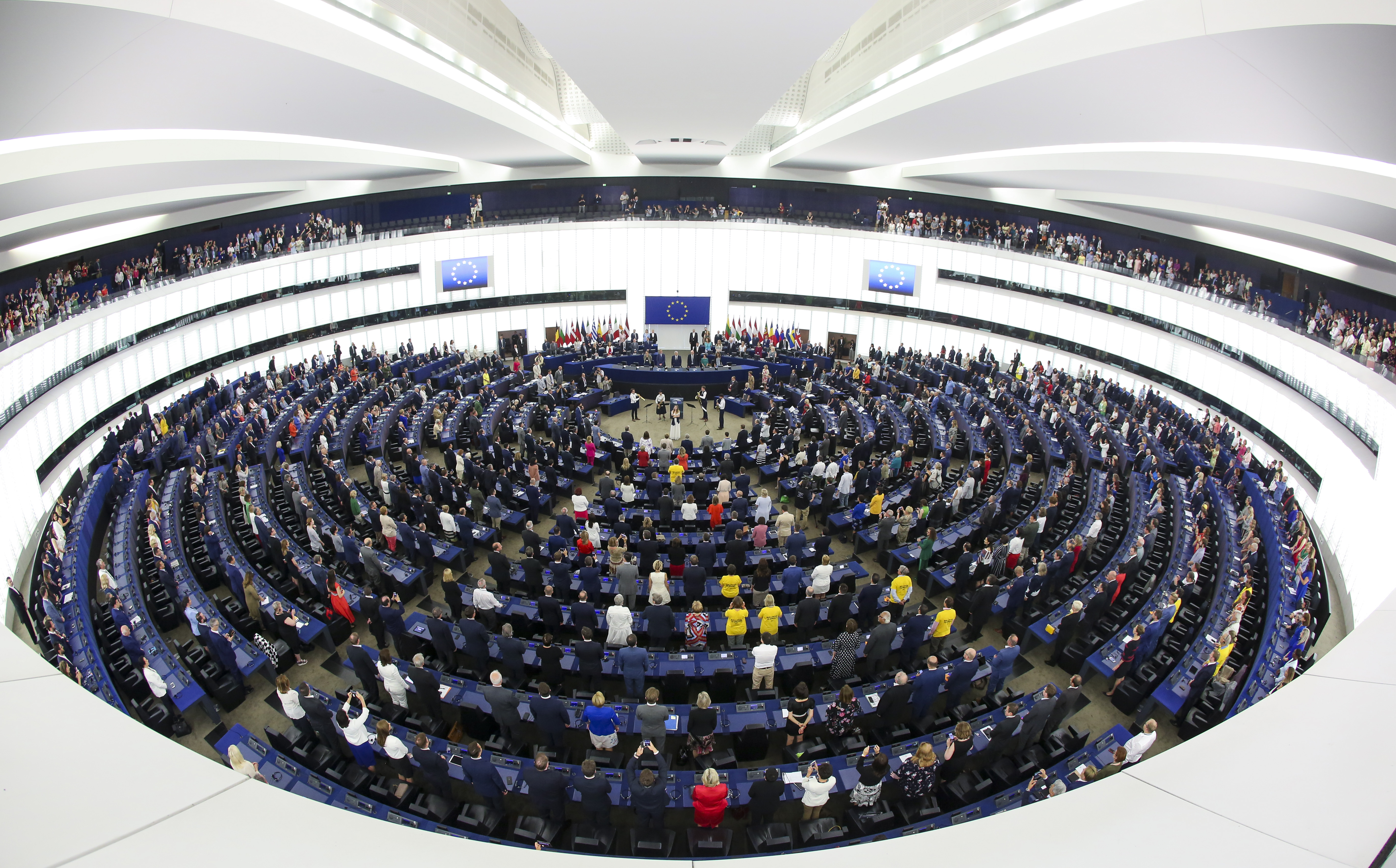 Read more: 9th European Parliament since first direct elections in 1979 starts today MEPs elected from 190 political parties in 28 member states 61% new MEPs 60% men, 40% women This photo is free to use under Creative Commons license CC-BY-4.0 and must be credited: "CC-BY-4.0: © European Union 2019 – Source: EP". No model release form if applicable. For bigger HR files please contact: webcom-flickr(AT)